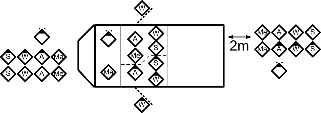 Seat and compete-order